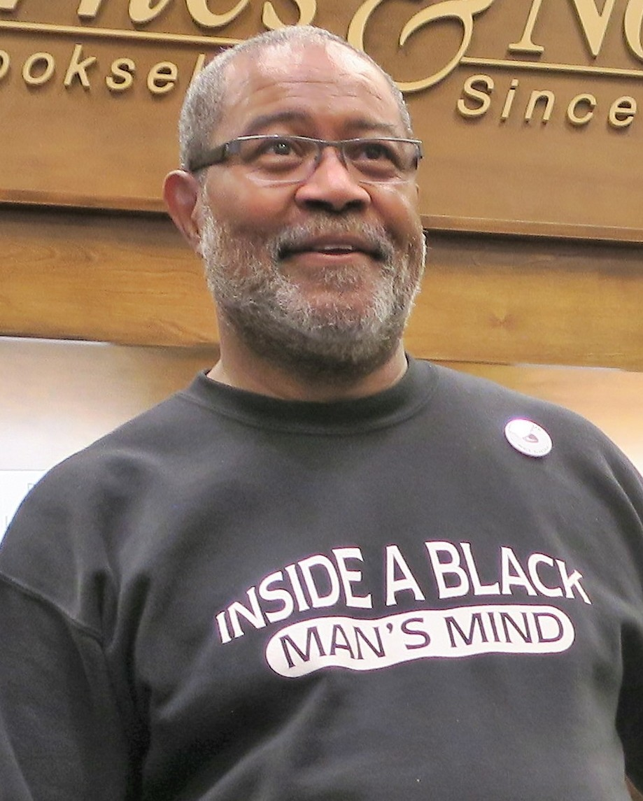 El Paso-Ron Stallworth-Black Klansman 1